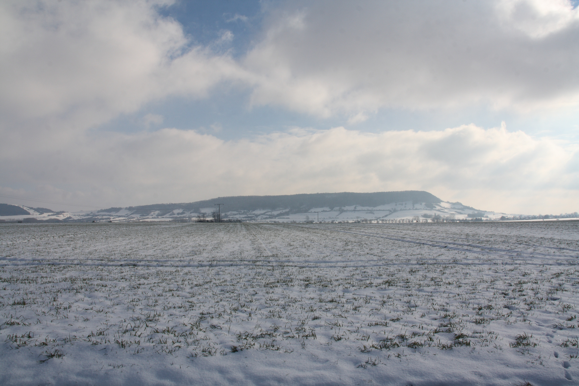 mountain Holzberg, view from district road Kreisstraße 47 between town Stadtoldendorf and village Deensen